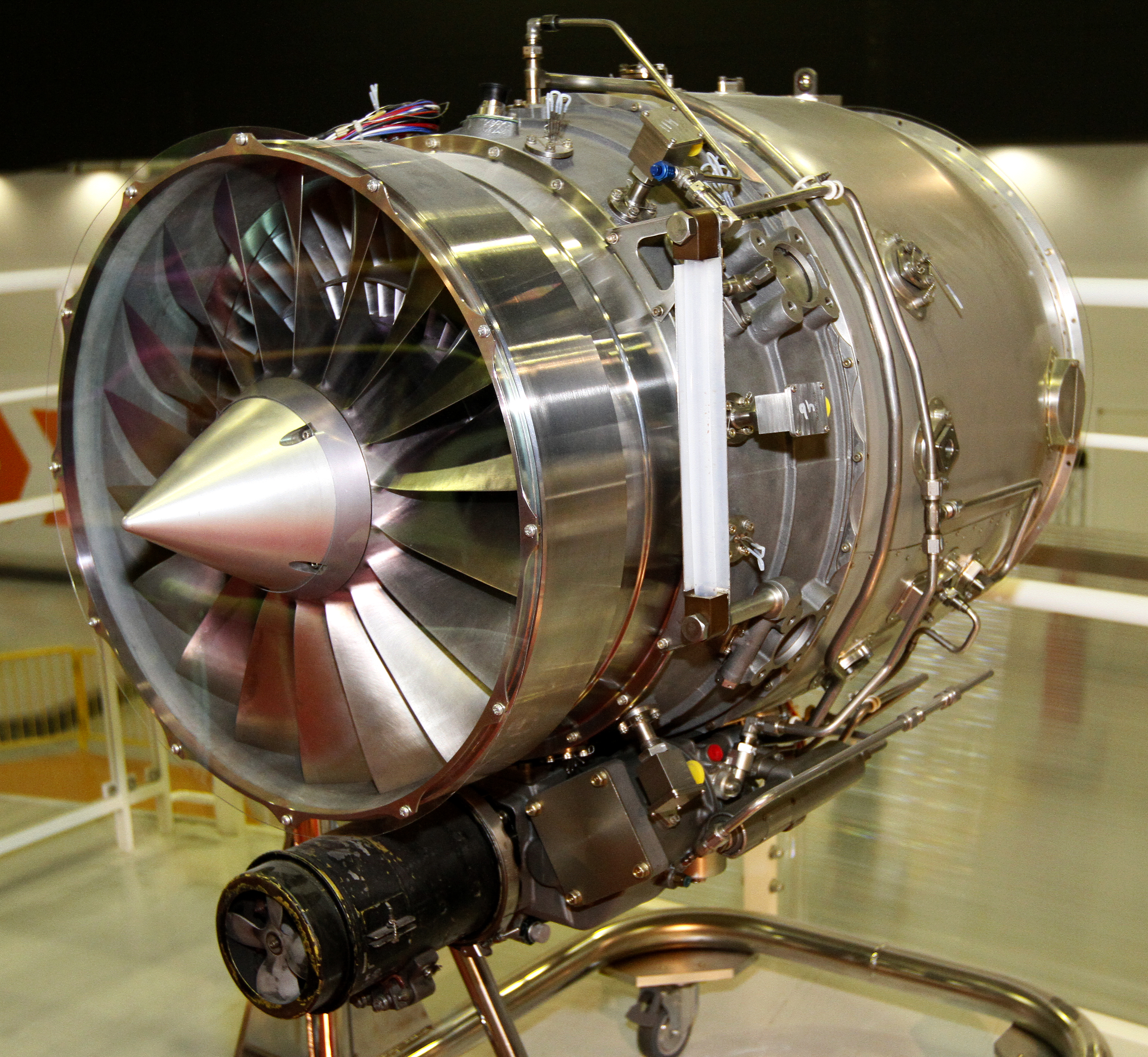 Honda HFX-01 turbo-fan aircraft engine; Honda's experimental aircraft-engine, developed between 1991 and 1996.